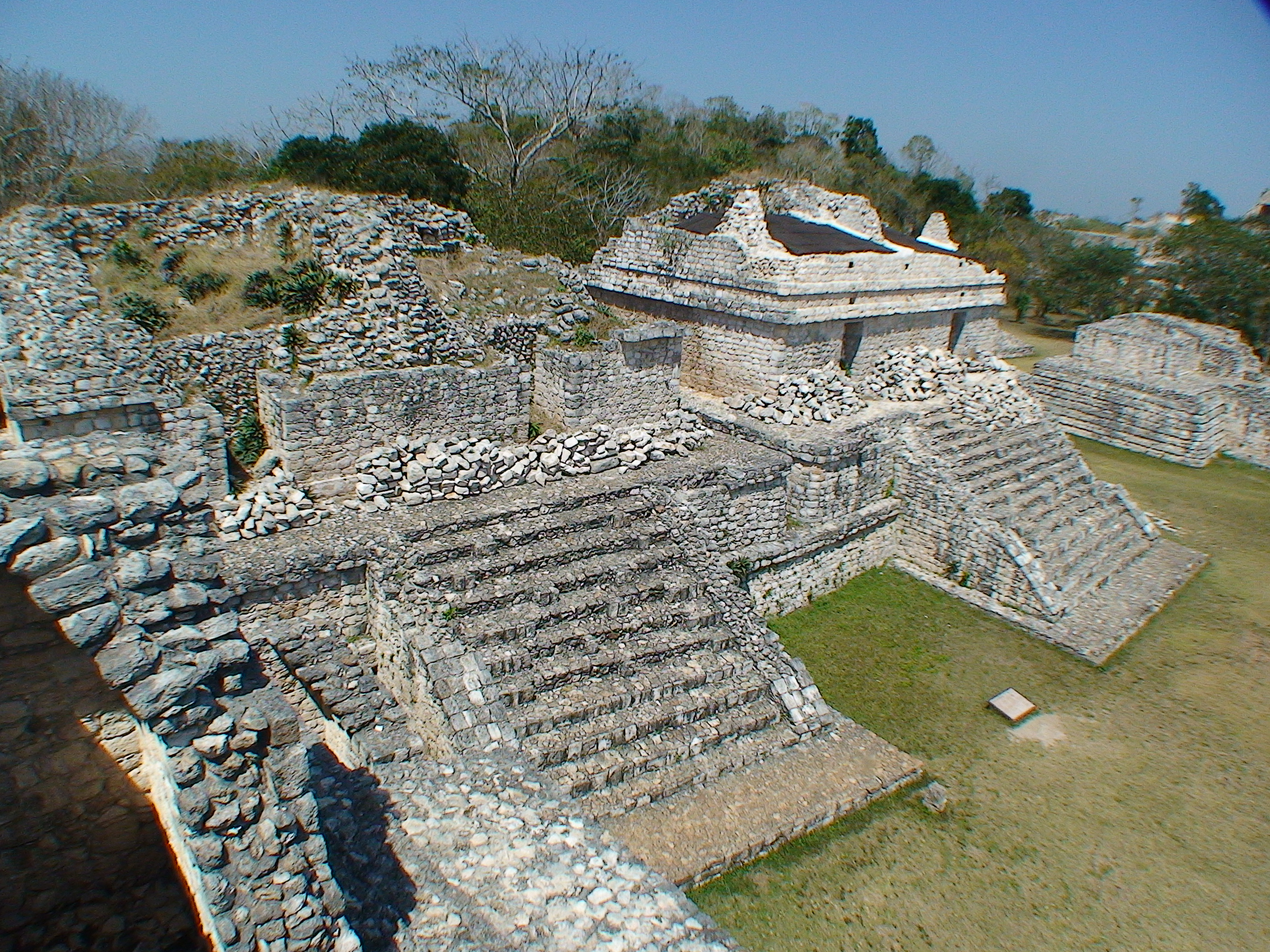 Ek Balam, Yucatan, Mexico: Edificios Los Gemelos